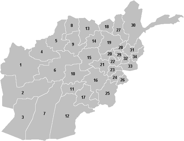 Numbered map of Afghanistan provinces. Original map source: Image:Afghanistan_provinces_blank.png